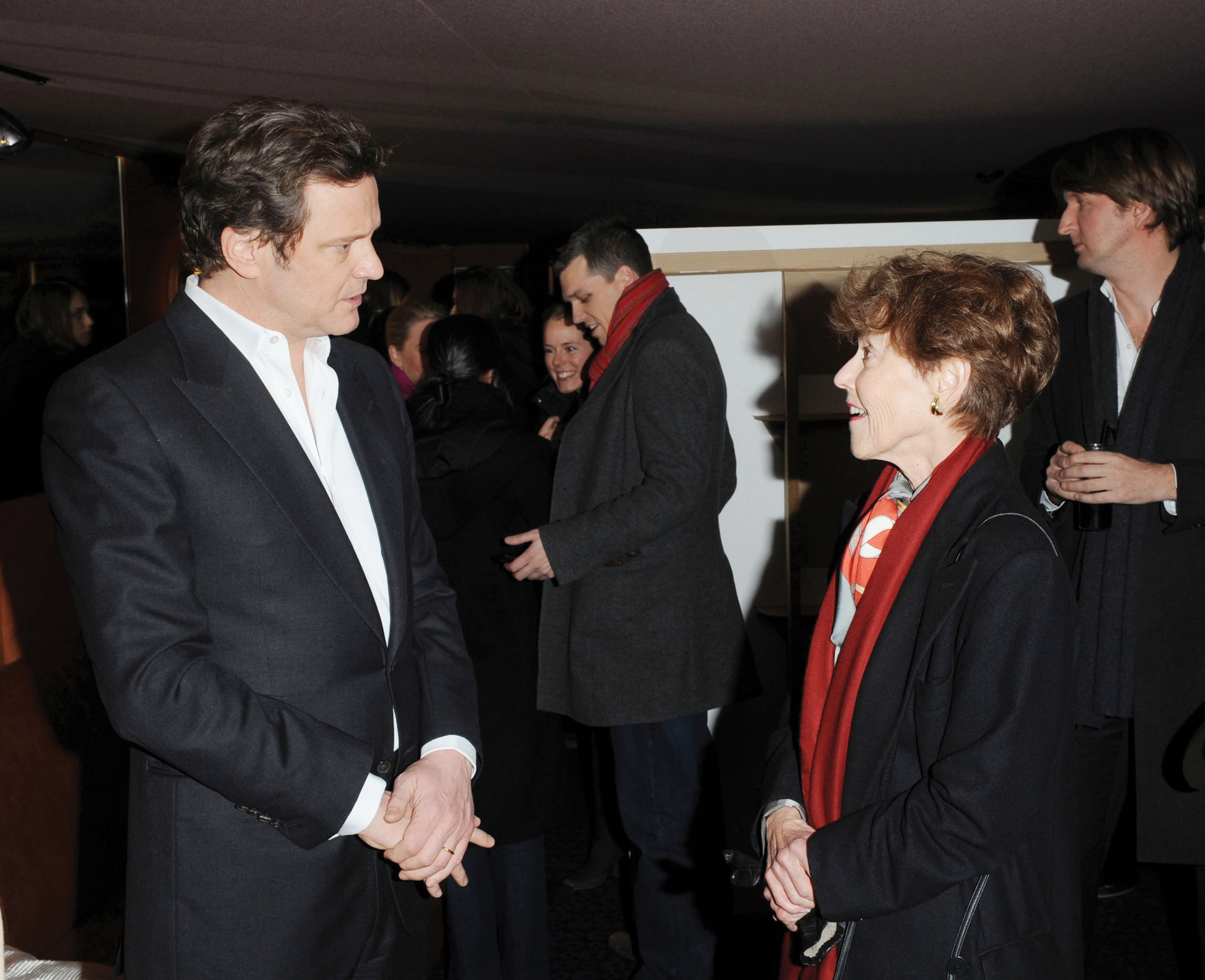 Jane Fraser